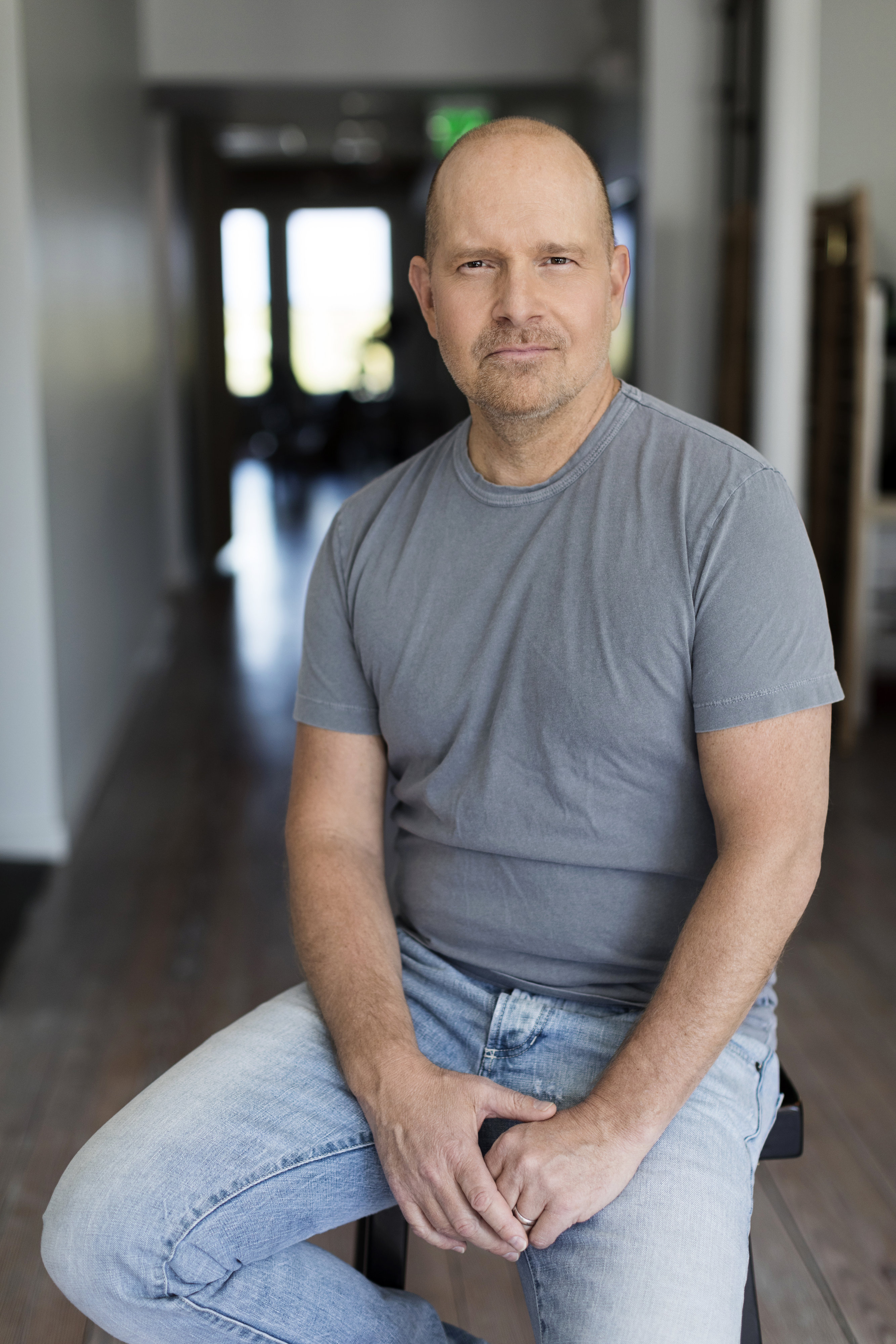 Mike Henry in the studio